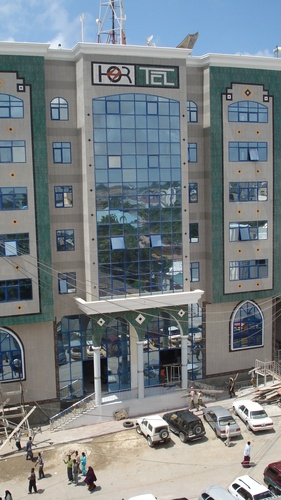 Hormuud